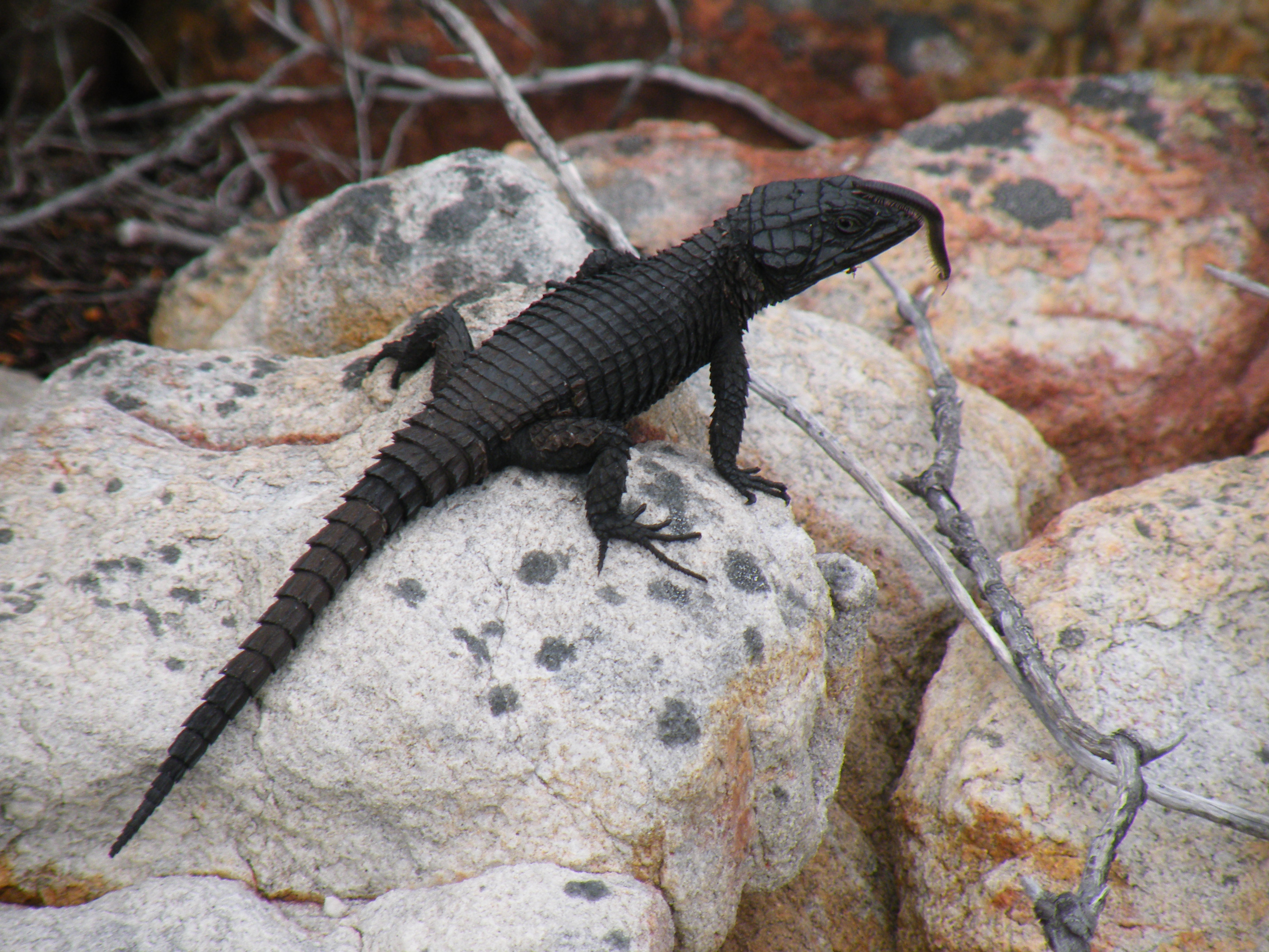 A Black Girdled Lizard with a millipede on its nose. Cordylus niger. Photo taken on Table Mountain.